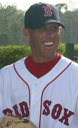 Description Bryan Corey Date2.24.08SourceOwn workAuthorHappyHarvick2962 (talk) 01:48, 5 April 2008 . . HappyHarvick2962 . . 264×469 (31 KB) Bryan Corey